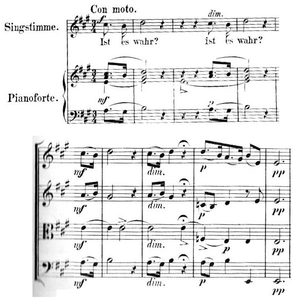 The motif of the song "Ist Es Wahr" by Felix Mendelssohn, for baritone and piano, and the use of the motif in Mendelssohn's string quartet opus 13.